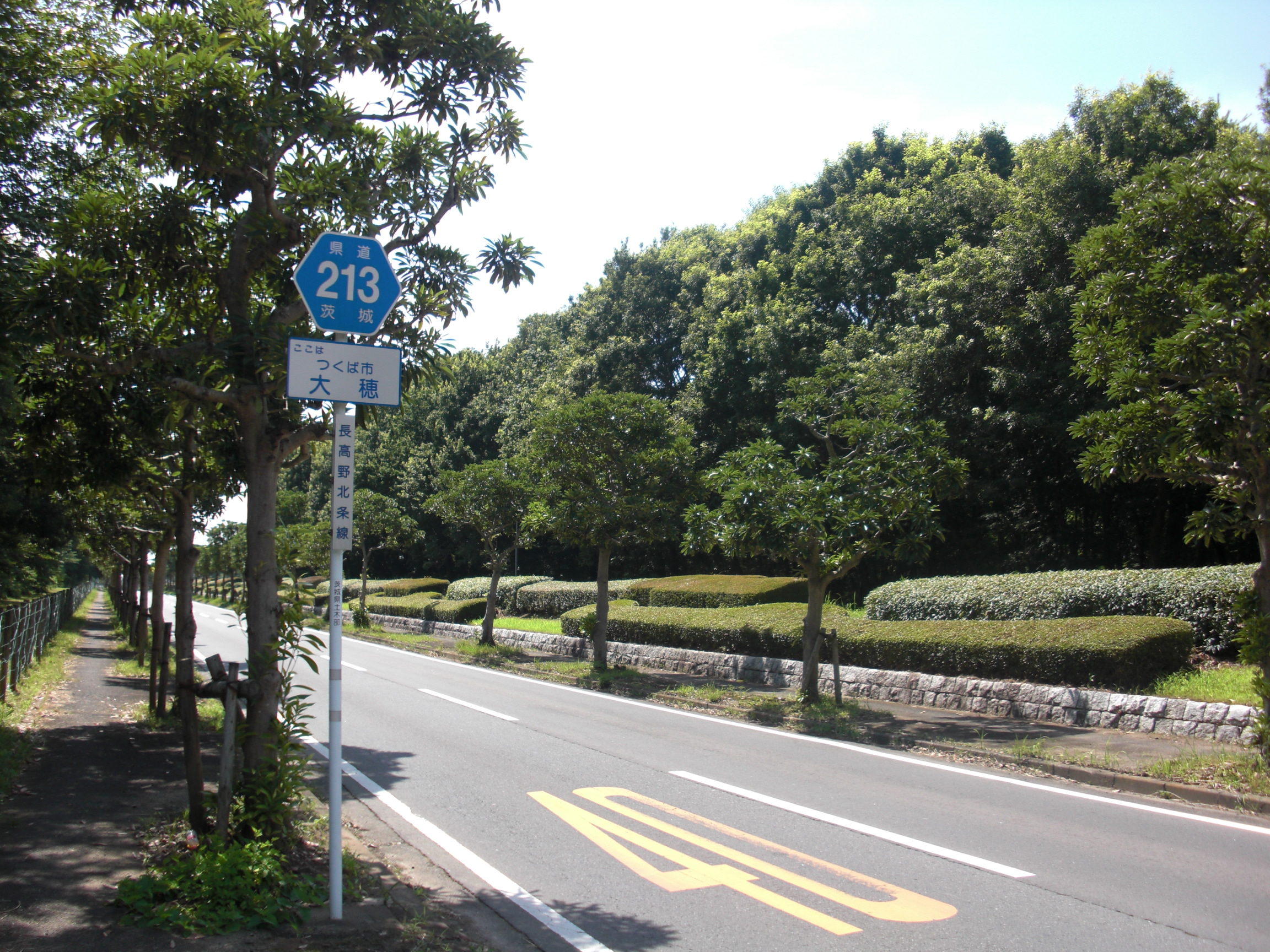 This is a landscape photo of Ibaraki prefectural road No.213 Osagoya-Hojo Line at Oho, Tsukuba, Ibaraki, Japan.